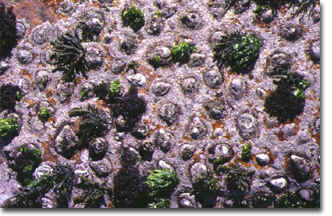 This image shows the coralline alga Spongites yendoi dominating the lower shore together with the gardening limpet Patella cochlear. This association is typical of the South and southern West Coast of South Africa.